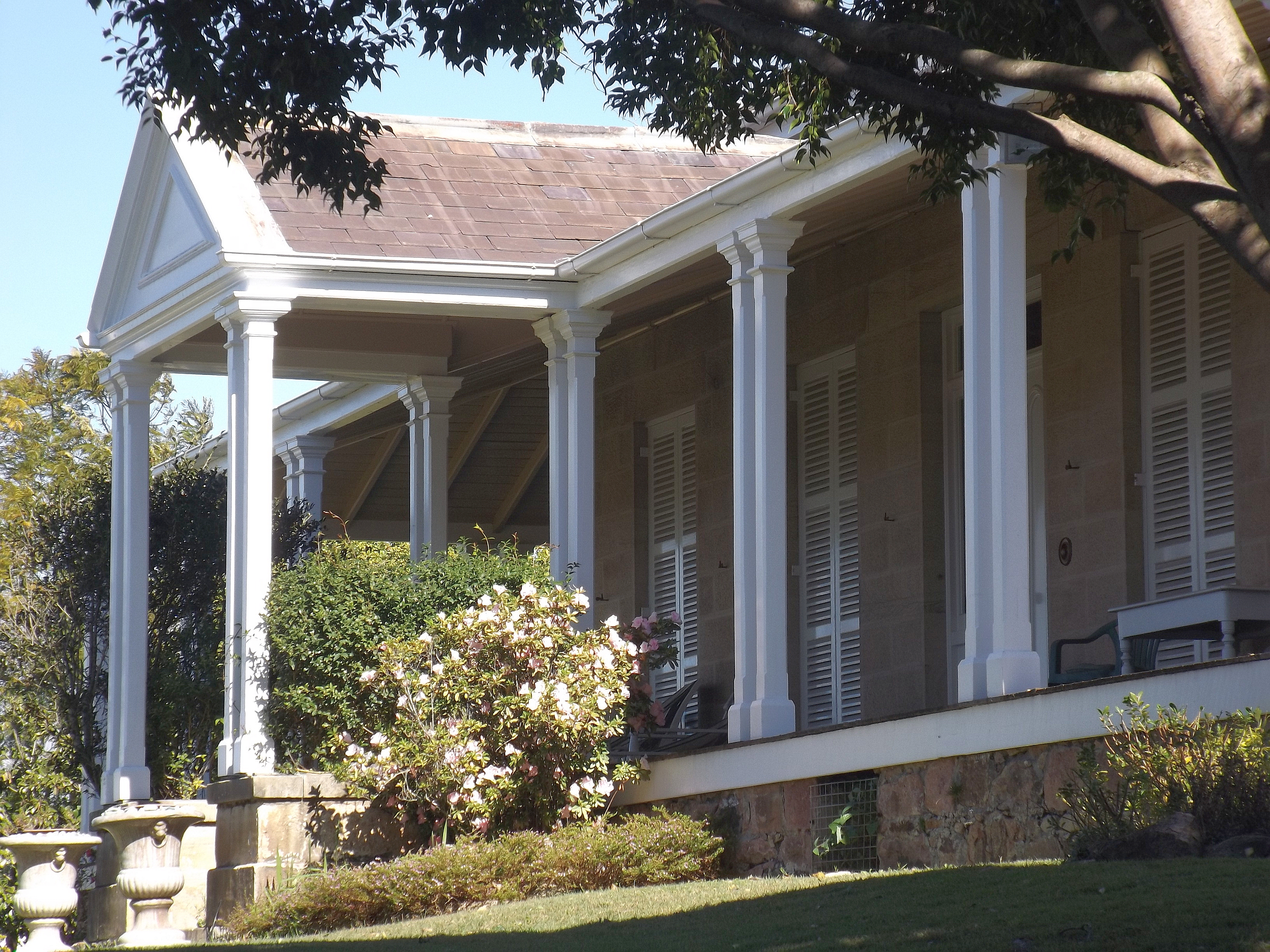 Photo of the entrance to Oakwal at Windsor, Brisbane, Queensland, Australia.